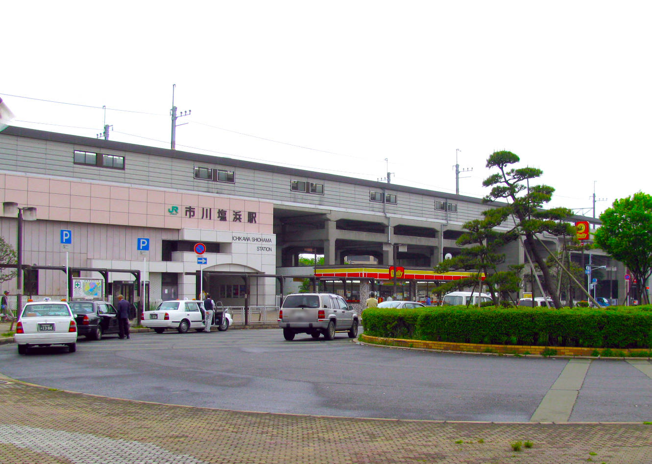 West side of Ichikawa-Shiohama Station on the Keiyo Line